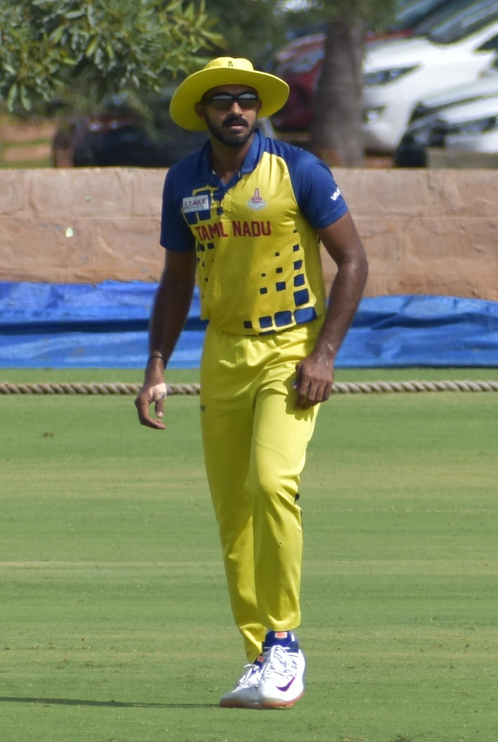 Indian cricketer Vijay Shankar during the 2019-20 Vijay Hazare Trophy in Alur, Bangalore.